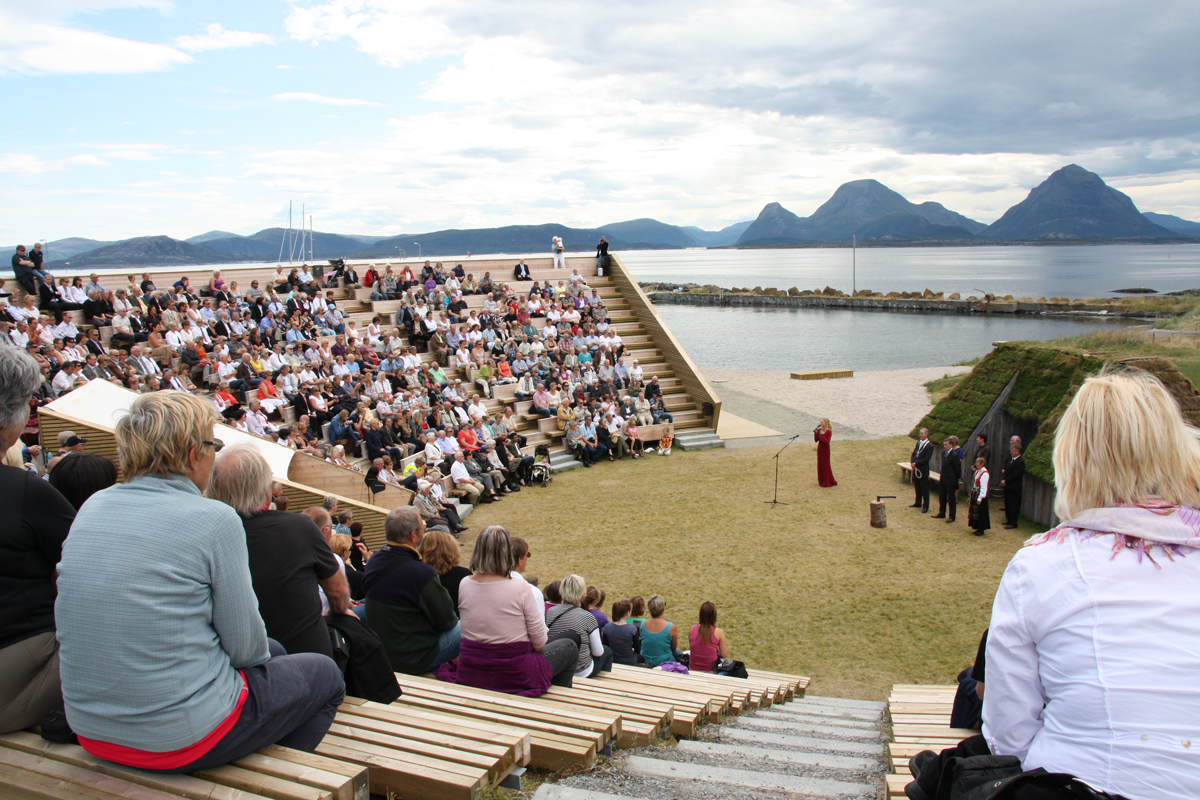 Opening of Gurisenteret, July 23rd 2009